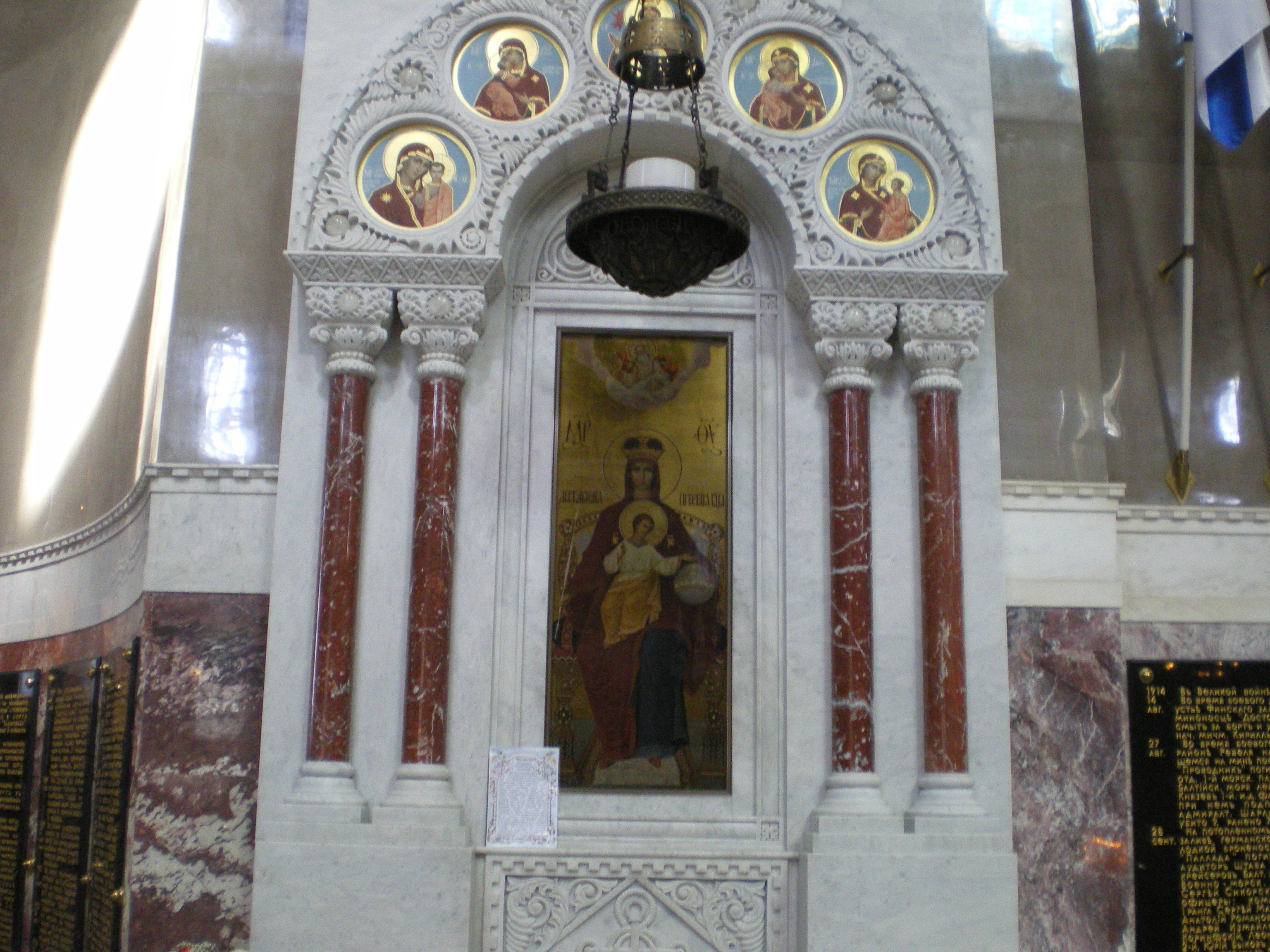 Theotokos Derzhavnaya at Kronstadt Naval Cathedral